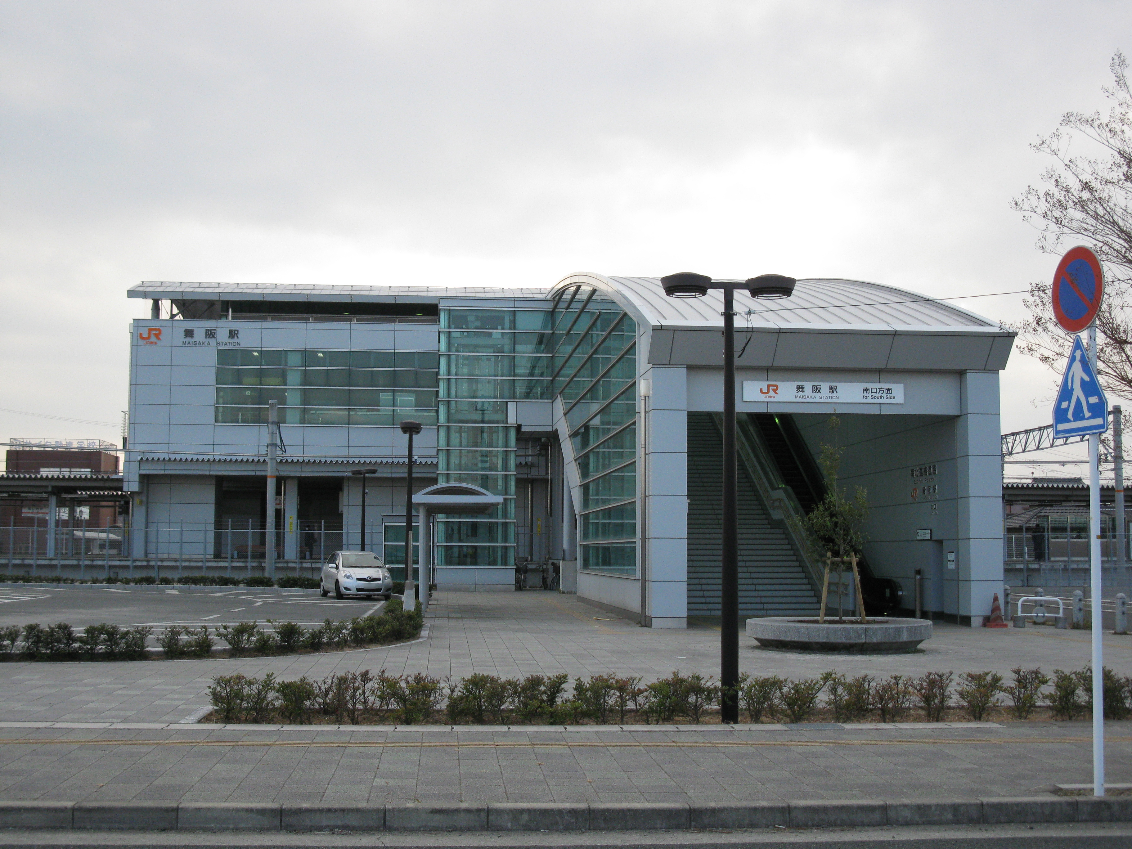 Maisaka Station north entrance (Central Japan Railway(JR Central) Tōkaidō Main Line)